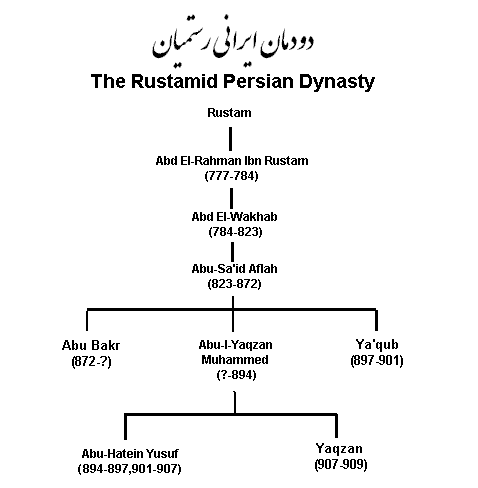 Persian Rustamid Dynasty of North Africa (Persians are natives of Persia or Iran, and an Iranian ethnic group, who migrated there and formed a Persian Dynasty known as Rustamid Dynasty)